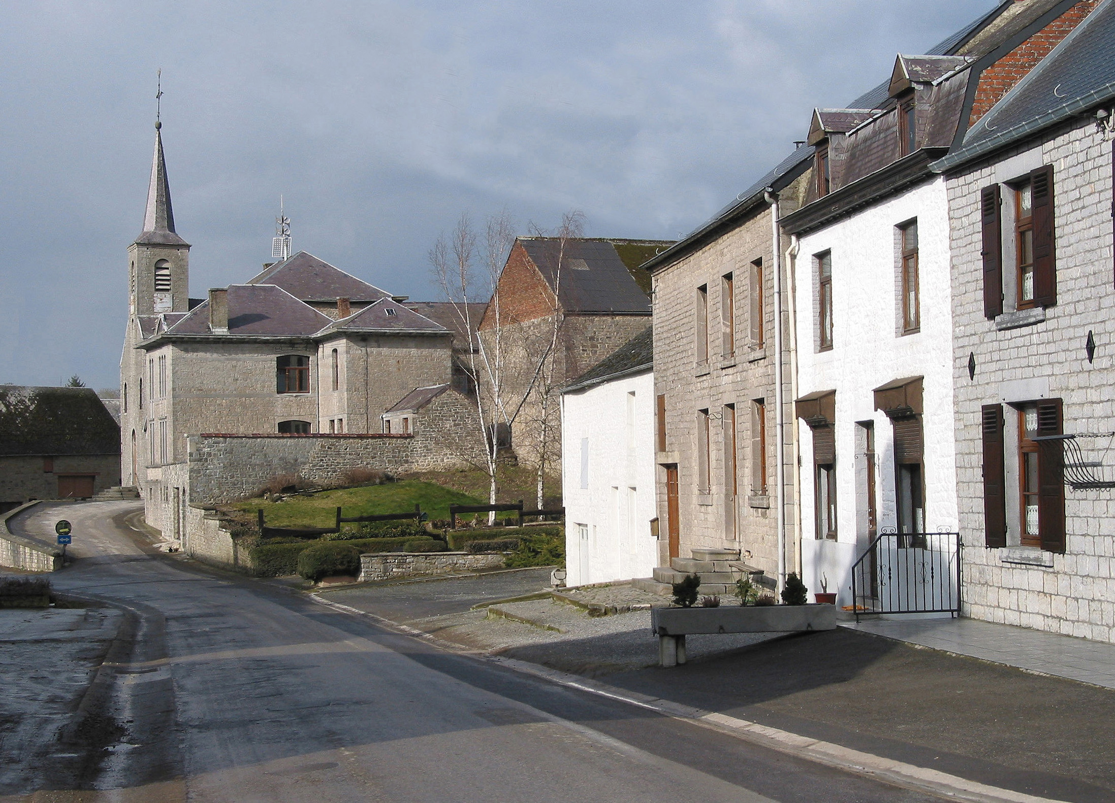 Matagne-la-Petite (Belgium), rue de l’Auberge - The neighbourhood of the church.